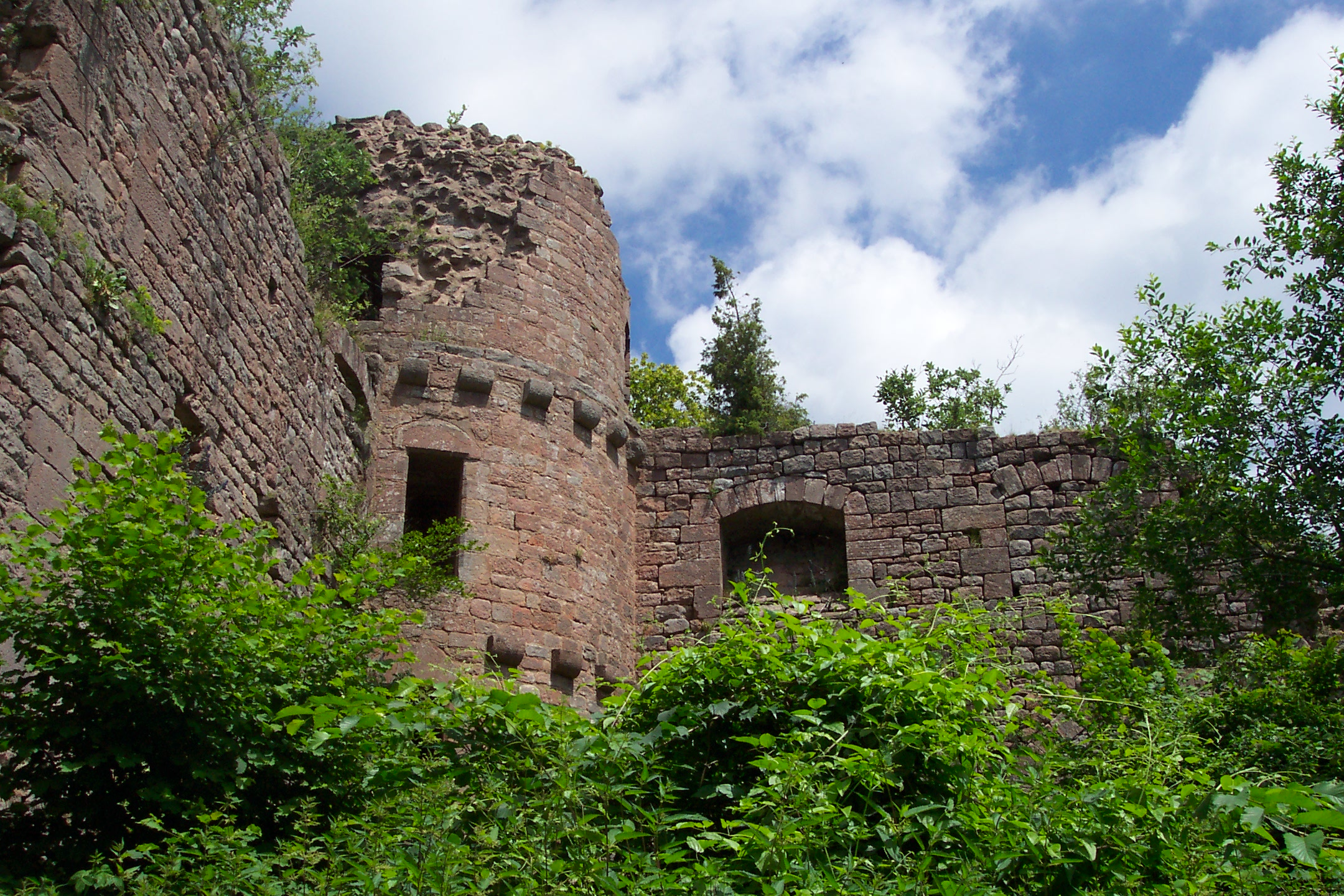 Château du Landsberg, near Barr, France.